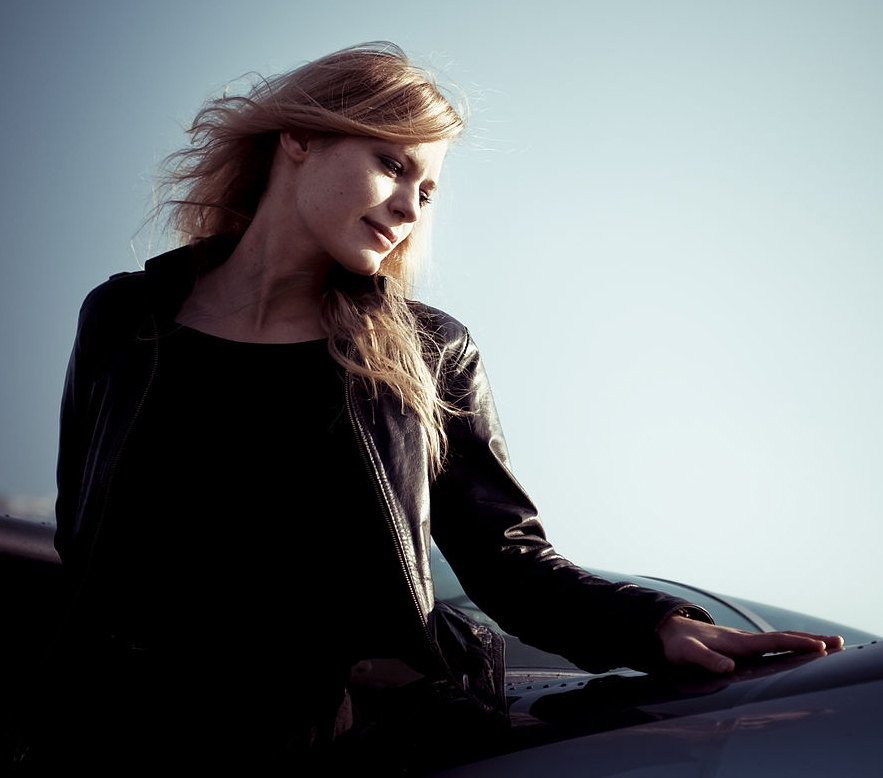 Aline Fournier/La Fouinographe